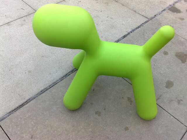 "Puppy" toy chair by Finnish designer Eero Aarnio, Googleplex, Mountain View, California.